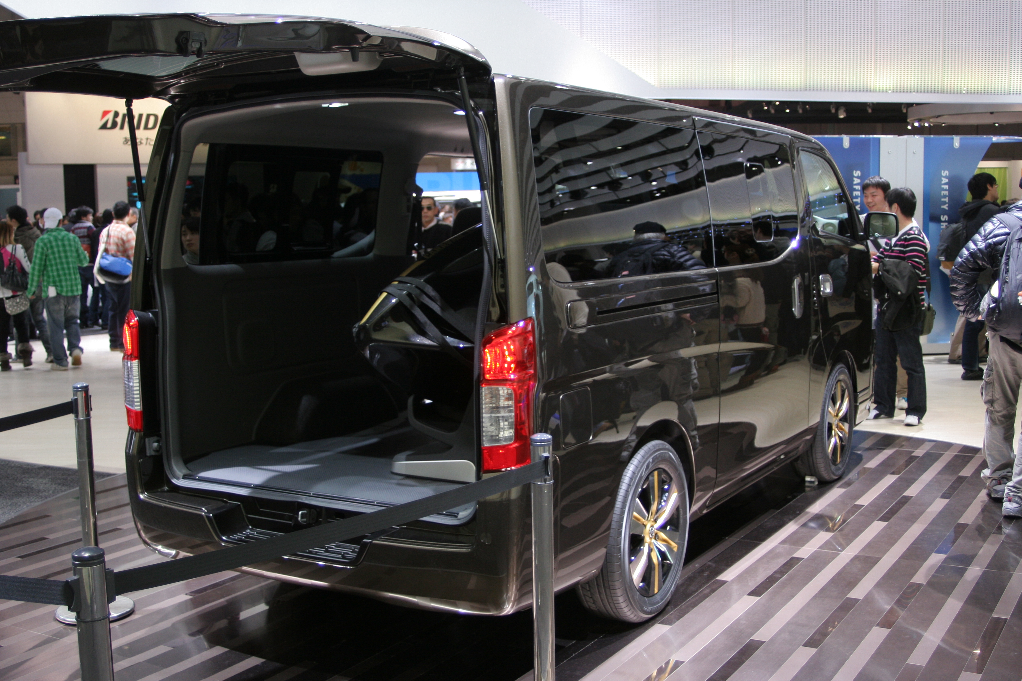 Nissan NV350 Caravan in Tokyo Motor Show 2011.